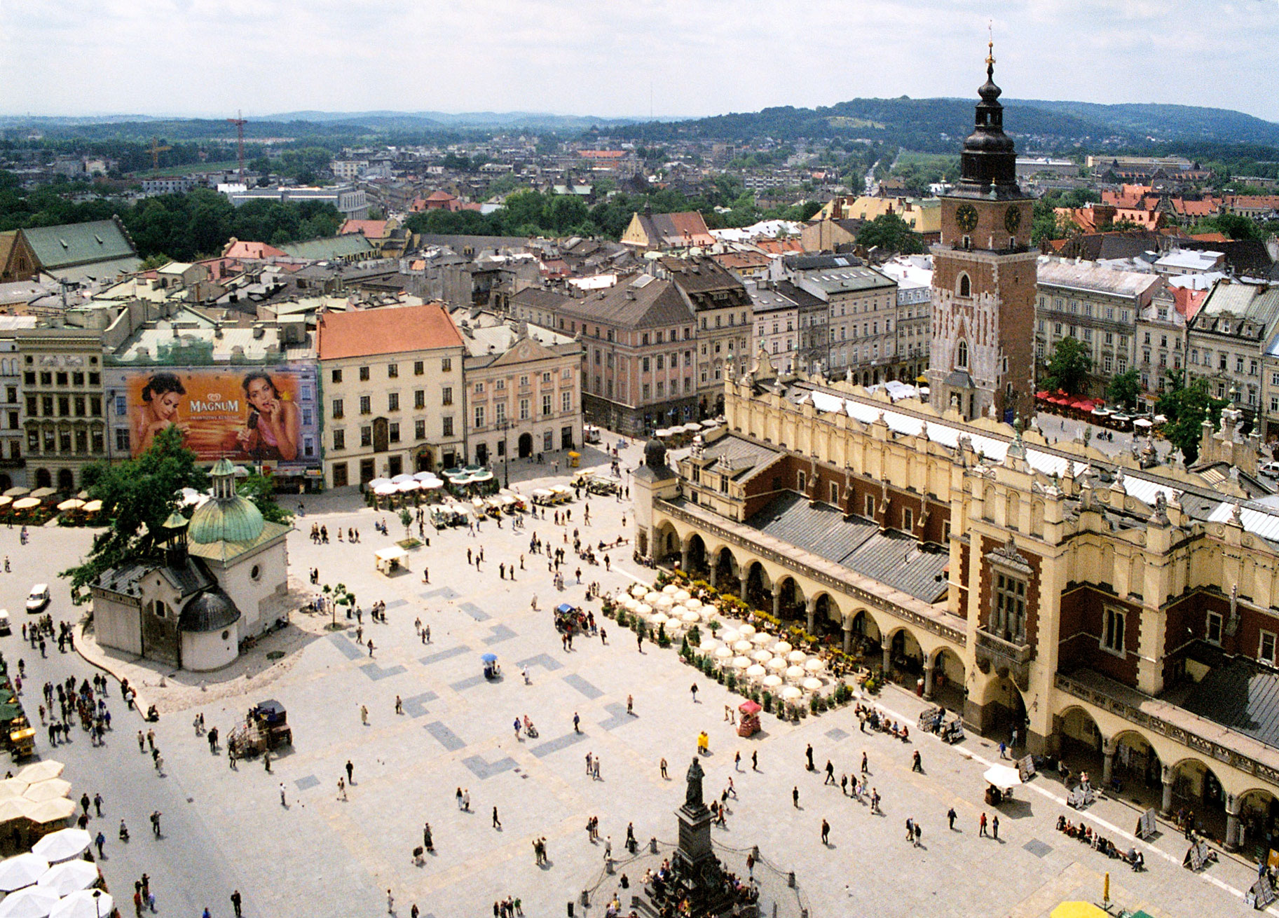 Kraków (Poland), Market square seen from tower of St. Mary church: Cloth Hall, Town Hall tower and St. Adalbert church.